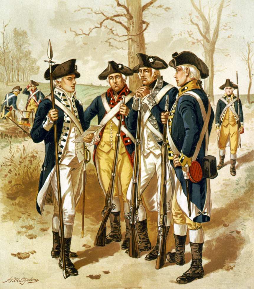 Infantry: Continental Army, 1779-1783, by Henry Alexander Ogden, IV / H. A. Ogden; lith. by G. H. Buek & Co., N.Y. Summary: Illustration depicts uniforms and weapons used during the 1779 to 1783 period of the American Revolution by showing four soldiers standing in an informal group. CALL NUMBER: LOT 4295 [item] [P&P] REPRODUCTION NUMBER: LC-USZC4-2135 (color film copy transparency) LC-USZ62-12383 (b&w film copy neg.) MEDIUM: 1 print : lithograph, color. FORMAT:Lithographs Color 1890-1900. REPOSITORY: Library of Congress Prints and Photographs Division Washington, D.C. 20540 USA DIGITAL ID: (color film copy transparency) cph 3g02135 (b&w film copy neg.) cph 3a14748 CARD #: 92515475